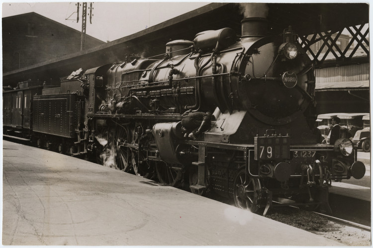 Title: Fleche d'Or, Golden Arrow, Paris Creator: Fox Photos Date: ca. 1926-1927 Place: Paris, France Part Of: David Goodyear collection of foreign railroad photographs Description: This photograph shows the Fleche d'Or or Golden Arrow train 79, likely a boat train, at the Nord departure side of the Paris train station. Source: Collyns, Adrian H. Northern Steam Vapeurs du Nord. DeGolyer Library, Southern Methodist University, 2003. Physical Description: 1 photograph: black and white; 16 x 24 cm. File: ag1983_0266_24_01_10r_fleche_sm_opt.jpg Rights: Please cite Southern Methodist University, Central University Libraries, DeGolyer Library when using this image file. A high-quality version of this file may be obtained for a fee by contacting . For more information, see: View Railroads: Photographs, Manuscripts, and Imprints